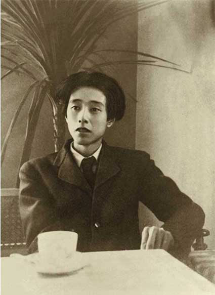 Tachihara Michizo, 23 years old.